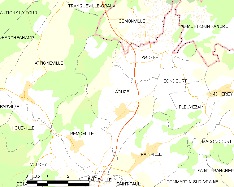 Map of French municipality Aouze